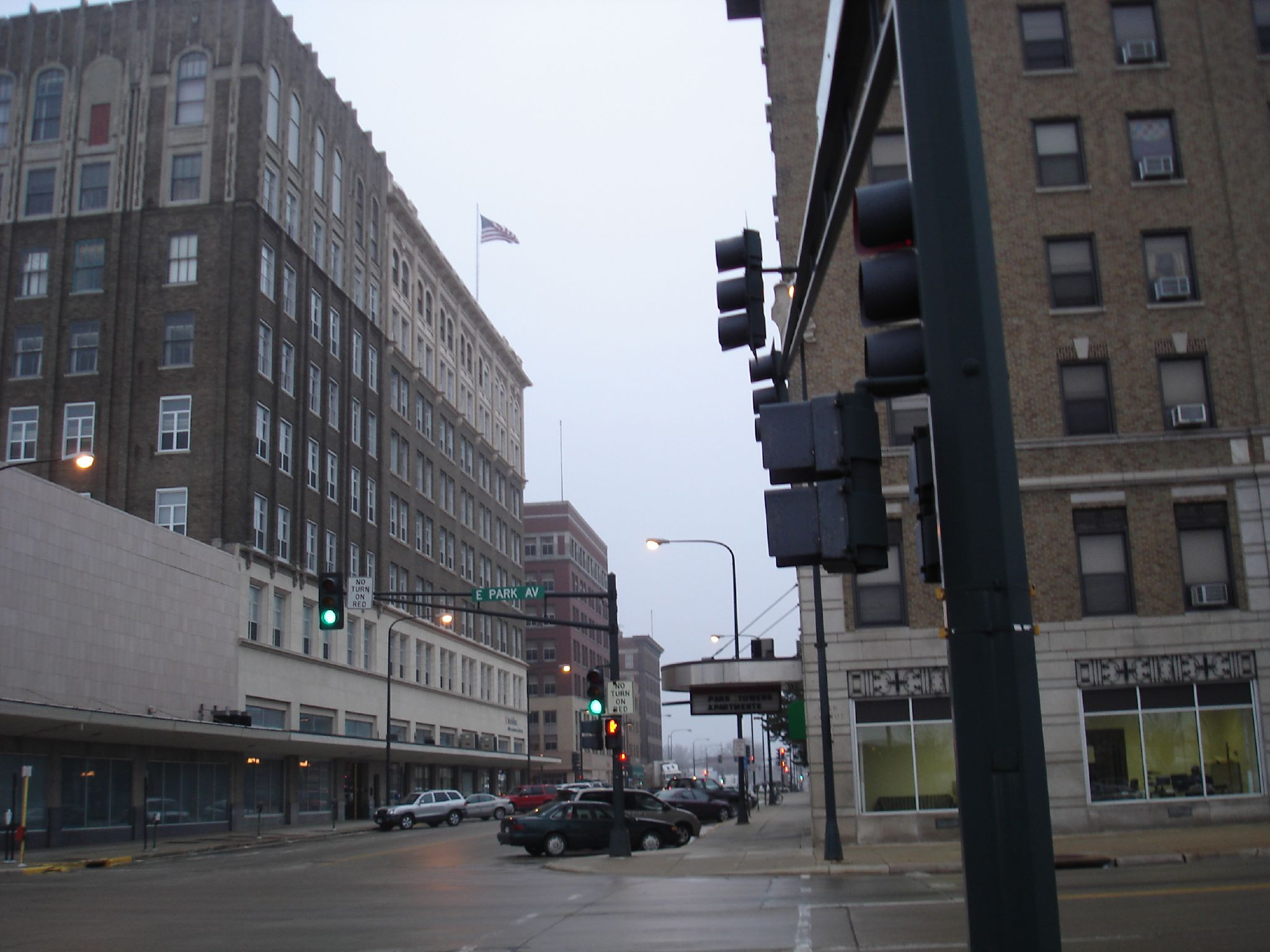 Downtown Waterloo Iowam - East Park Avenue